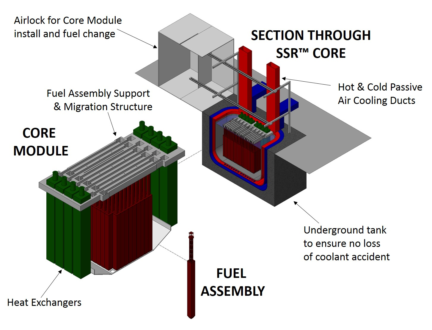 Reactor module, and 300MWe reactor core with 2 modules.